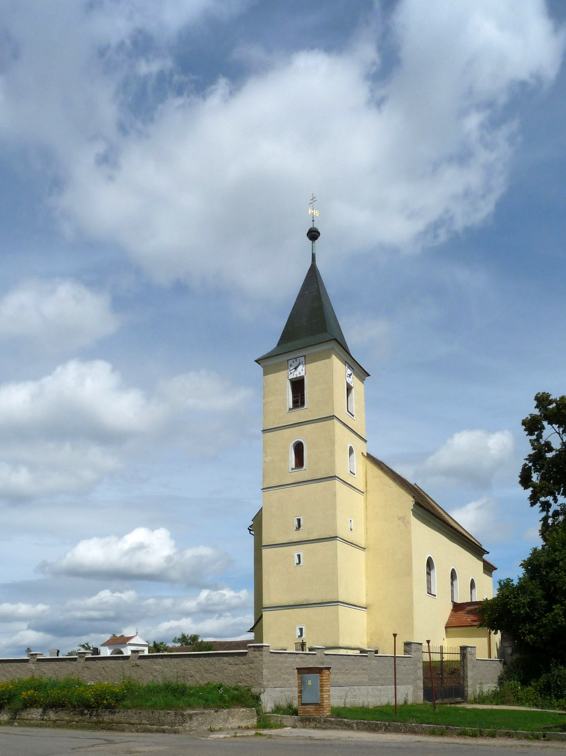 Church of the Visitation in the village of Choustník in Tábor District, Czech Republic.